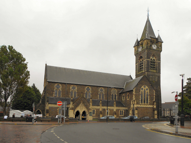 This large church, in a Gothic style, was built in 1866. It is Grade II* listed